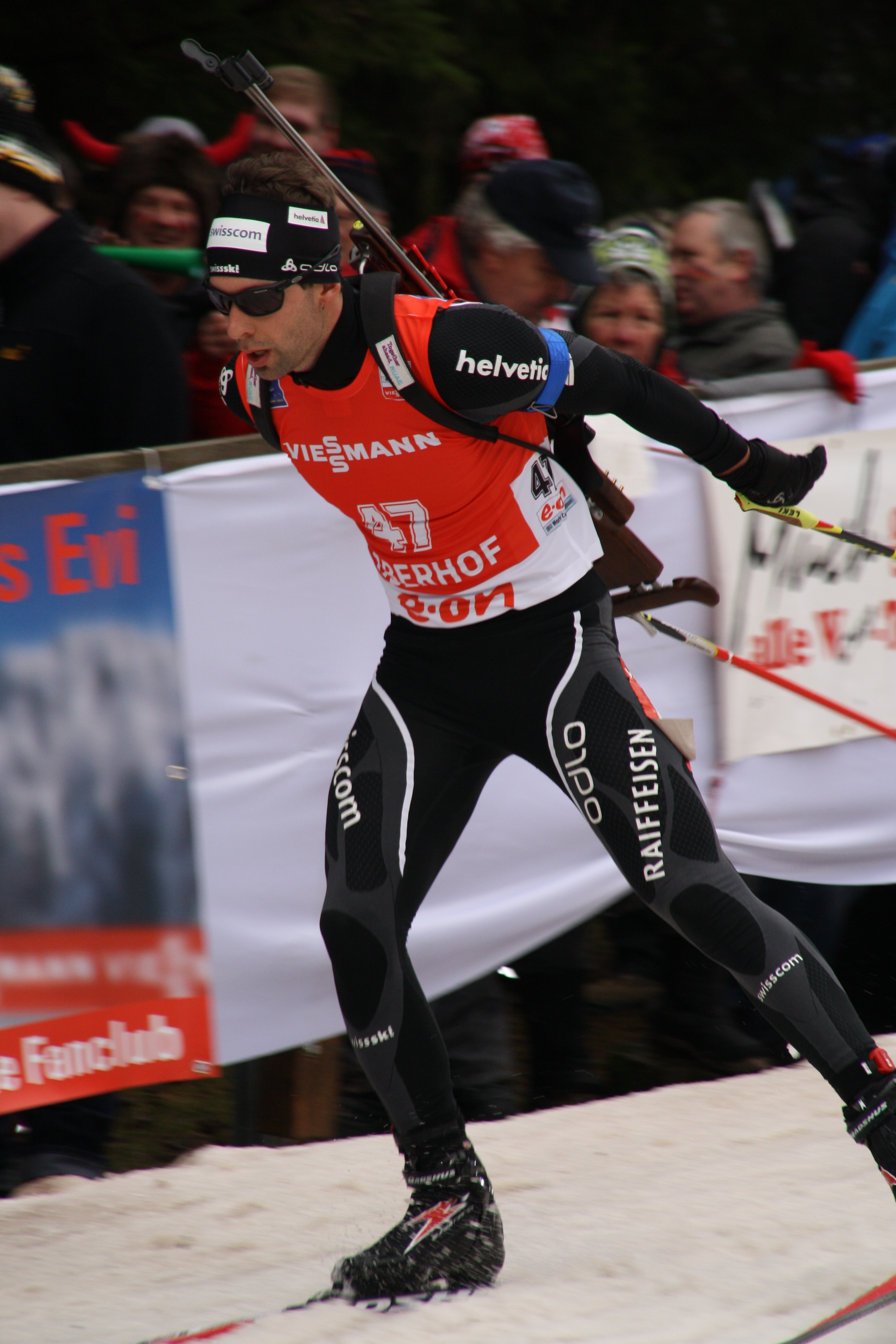 Biathlon World Cup Oberhof 2014 - Mens Pursuit